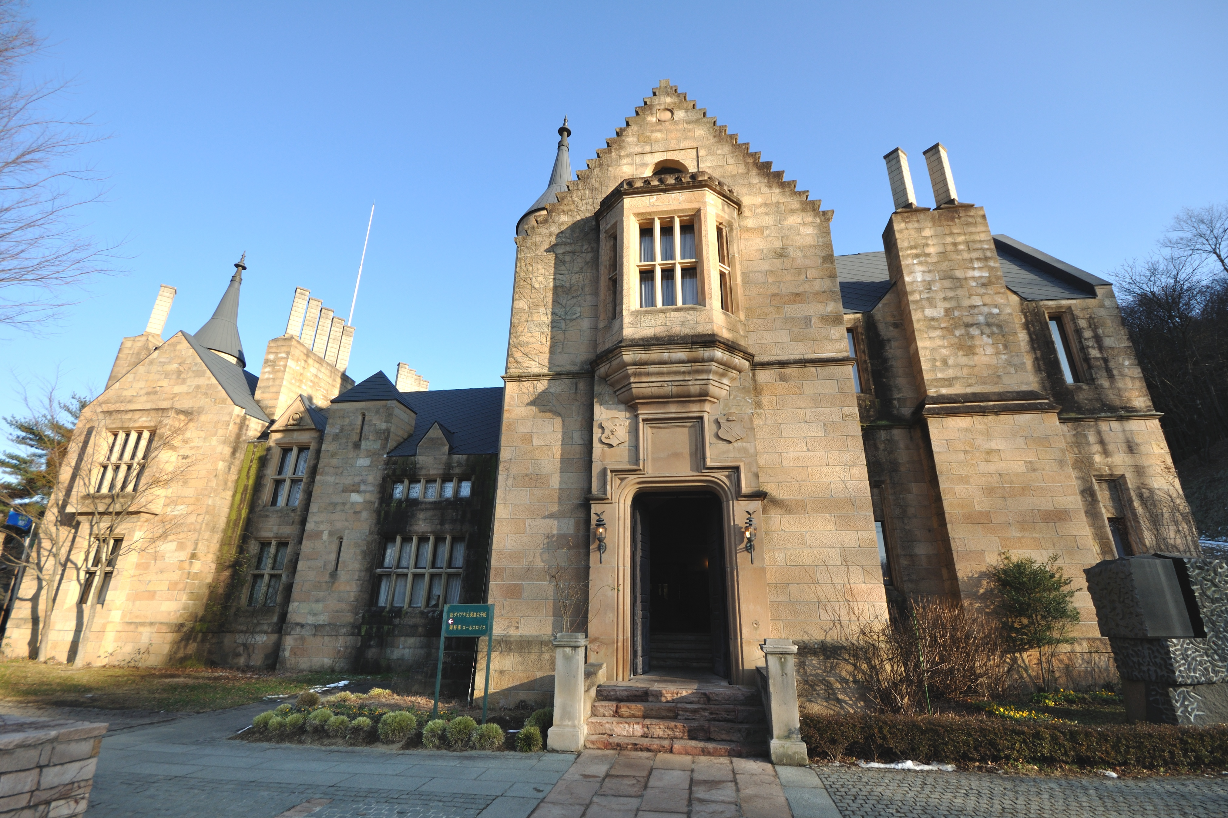 Photograph of Lockheart Castle exterior by amusement park "Marble Village Lockheart Castle" in Takayama Village, Gunma Prefecture, old name of this castle is "Milton Lockhart House", was constructed in Scotland of 1829, dismantled in 1987 and rebuild in Japan of 1993 as "Lockheart Castle", this photo taken in December 26, 2009.